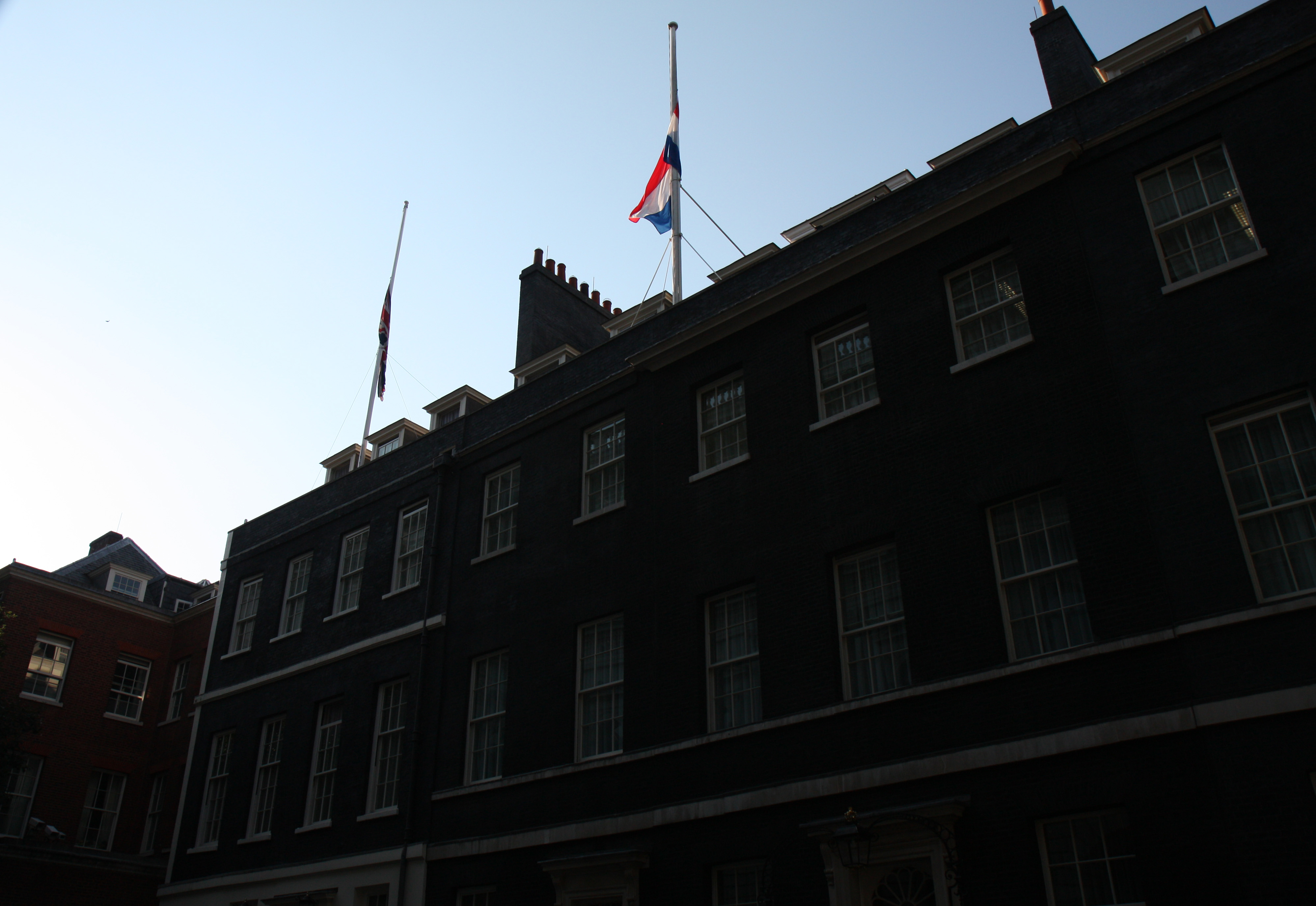 The Union and Dutch flags fly at half-mast in Downing Street as a mark of respect to those that died on board flight MH17, 23 July 2014.